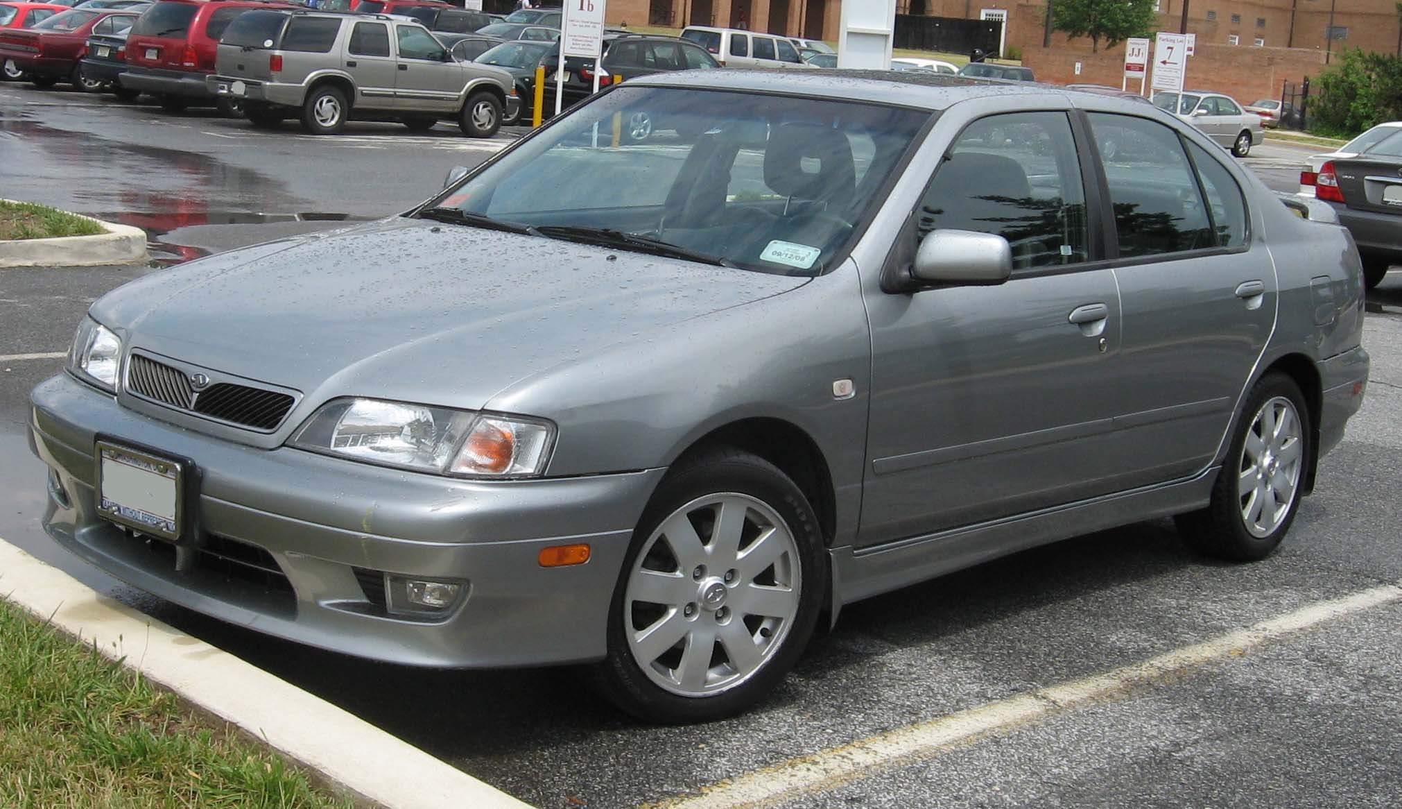 1999-2001 Infiniti G20 photographed in USA.